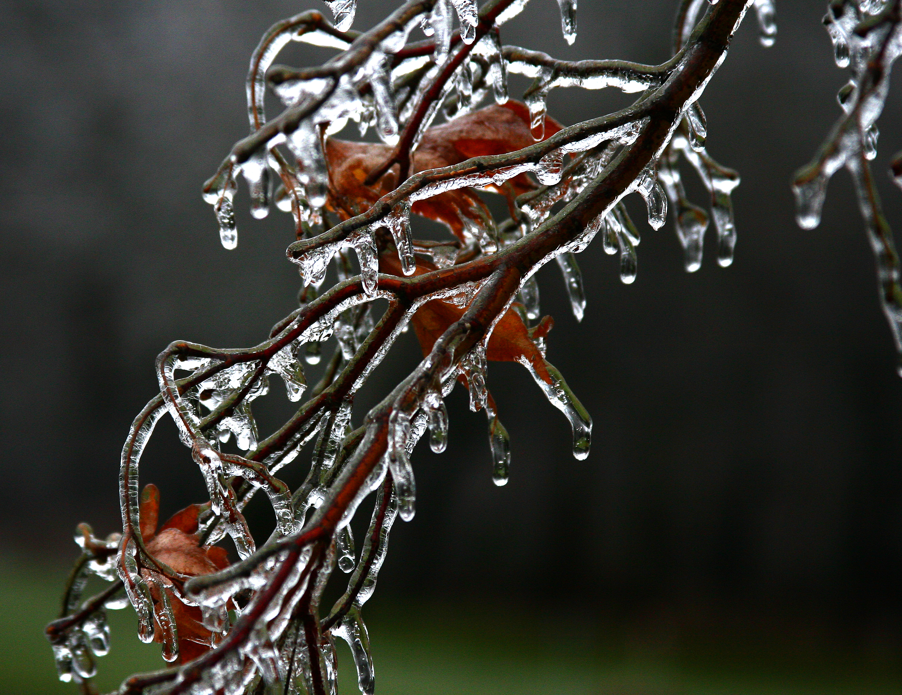 Icy Japanese Maple (Acer sp.) branch after an ice storm; Boxborough, Massachusetts, USA.